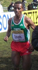 Kenenisa Bekele running